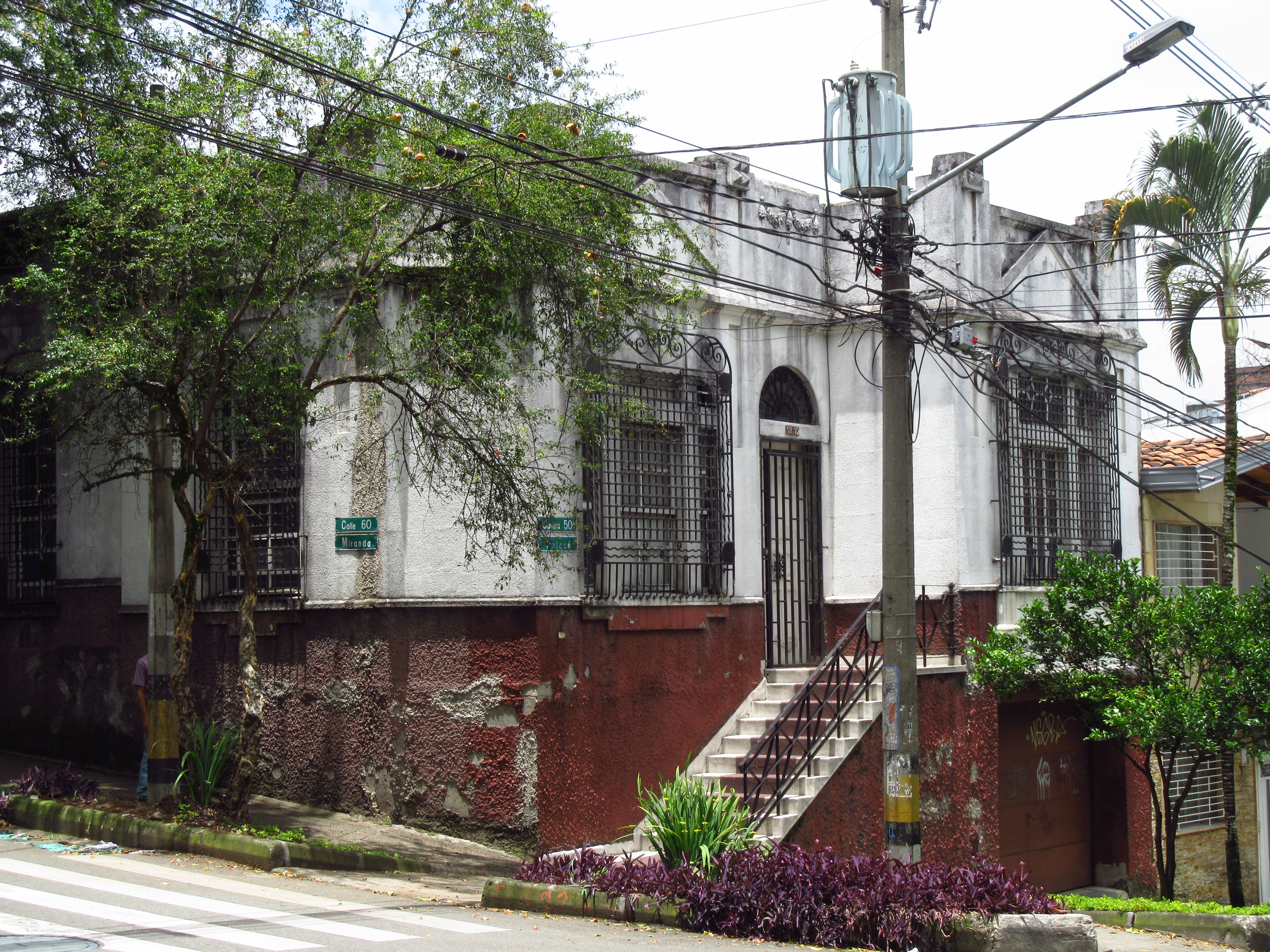 Medellín